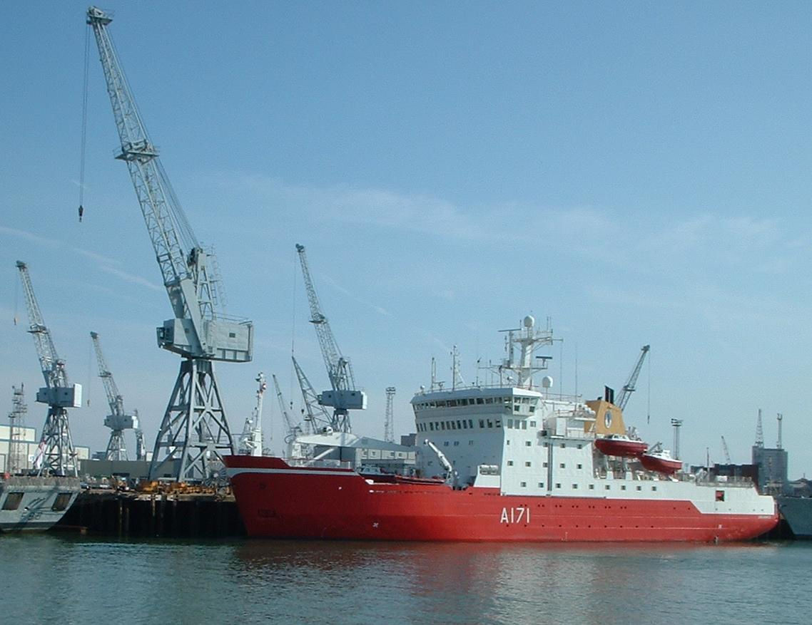 HMS Endurance is an Antarctic patrol ship, a 1A1 icebreaker.